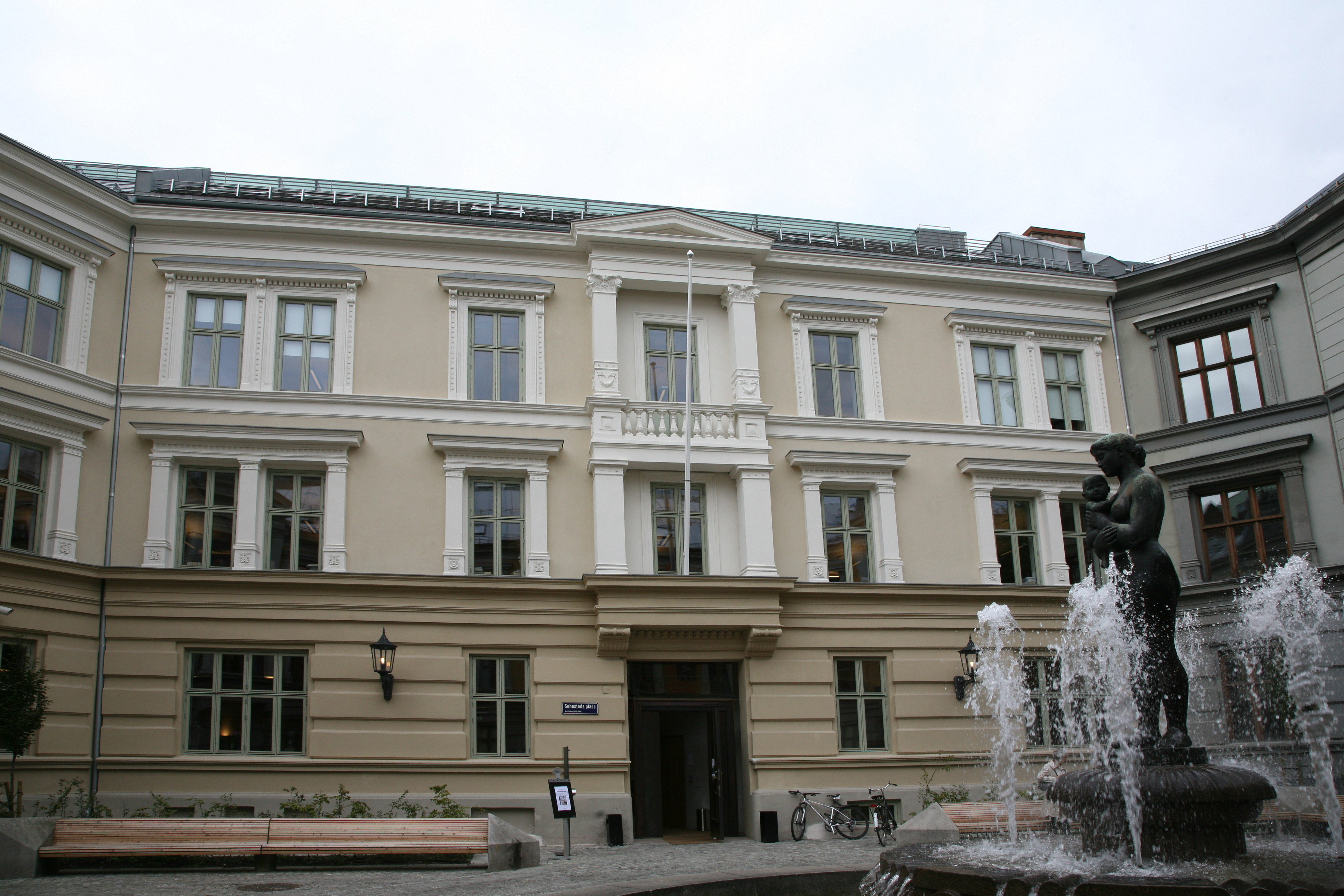 The Gyldendal house in Oslo. Gyldendal Norsk Forlag is a publishing house in Oslo. This is their headquarter. This is the preserved facade from Sehesteds plass.